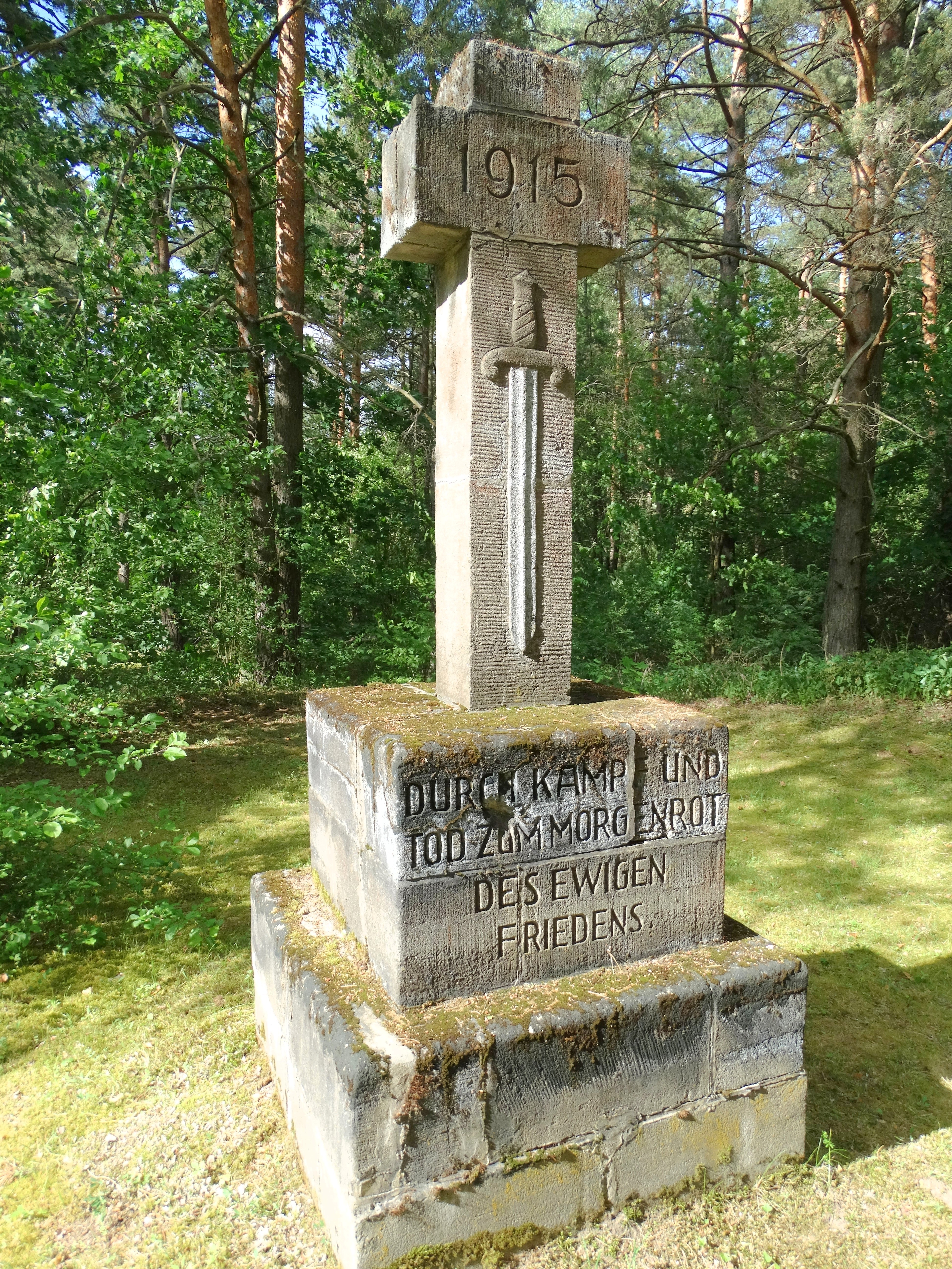 Monument to German soldiers, 1915, Balingradas, Švenčionys District, Lithuania